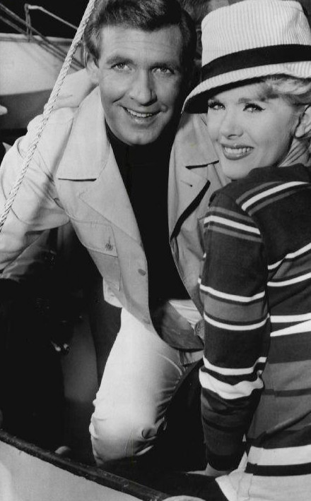 Photo of Connie Stevens as Wendy Conway and Ron Harper as her airline pilot husband, Jeff, from the television program Wendy and Me.